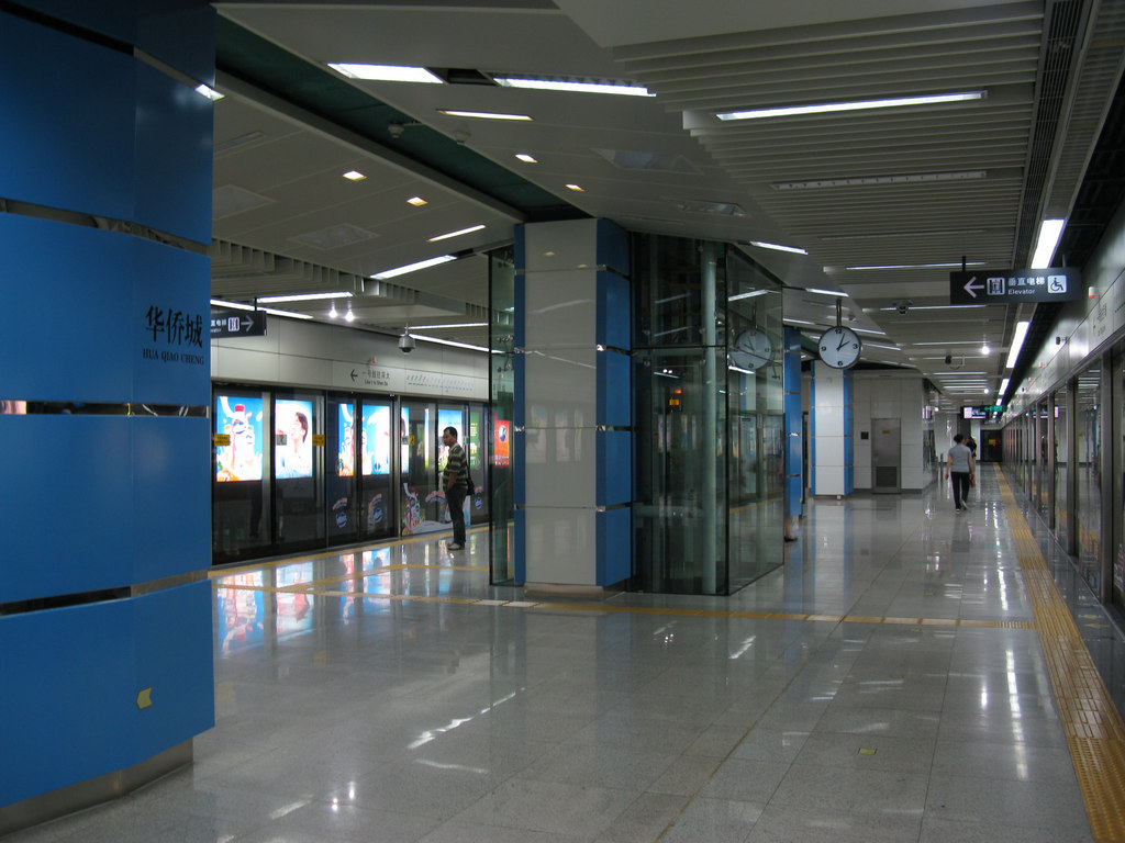 Line 1 Platform of Hua Qiao Cheng Station, Shenzhen Metro, view towards Qiao Cheng Dong Station